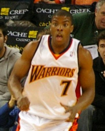 Kelenna Azubuike of the Golden State Warriors